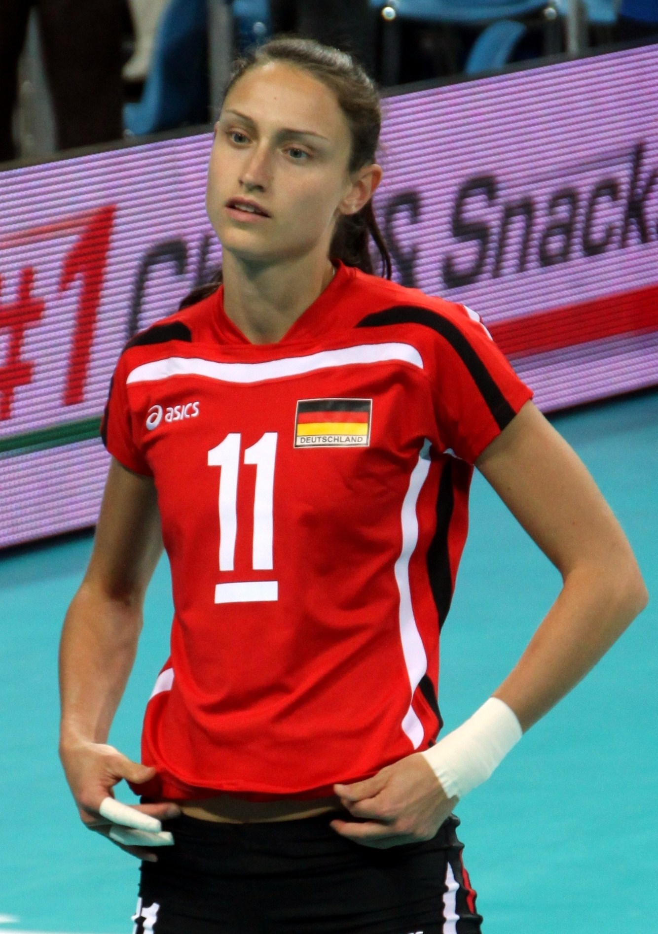 German volleyball player Christiane Fürst